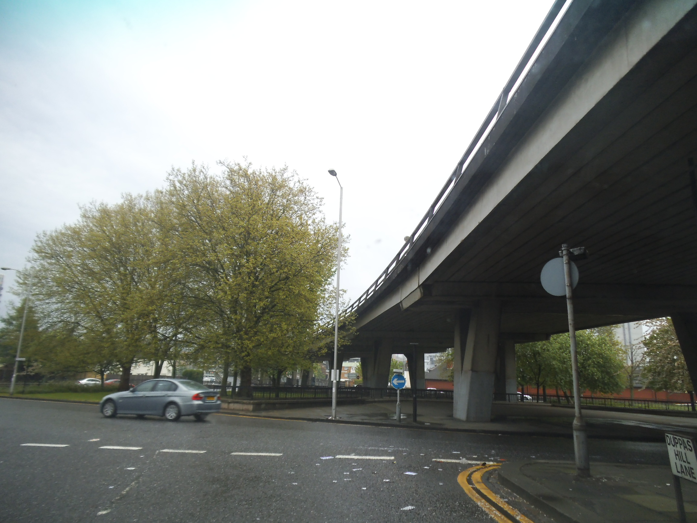 The Croydon flyover from Duppas Hill Lane roundabout